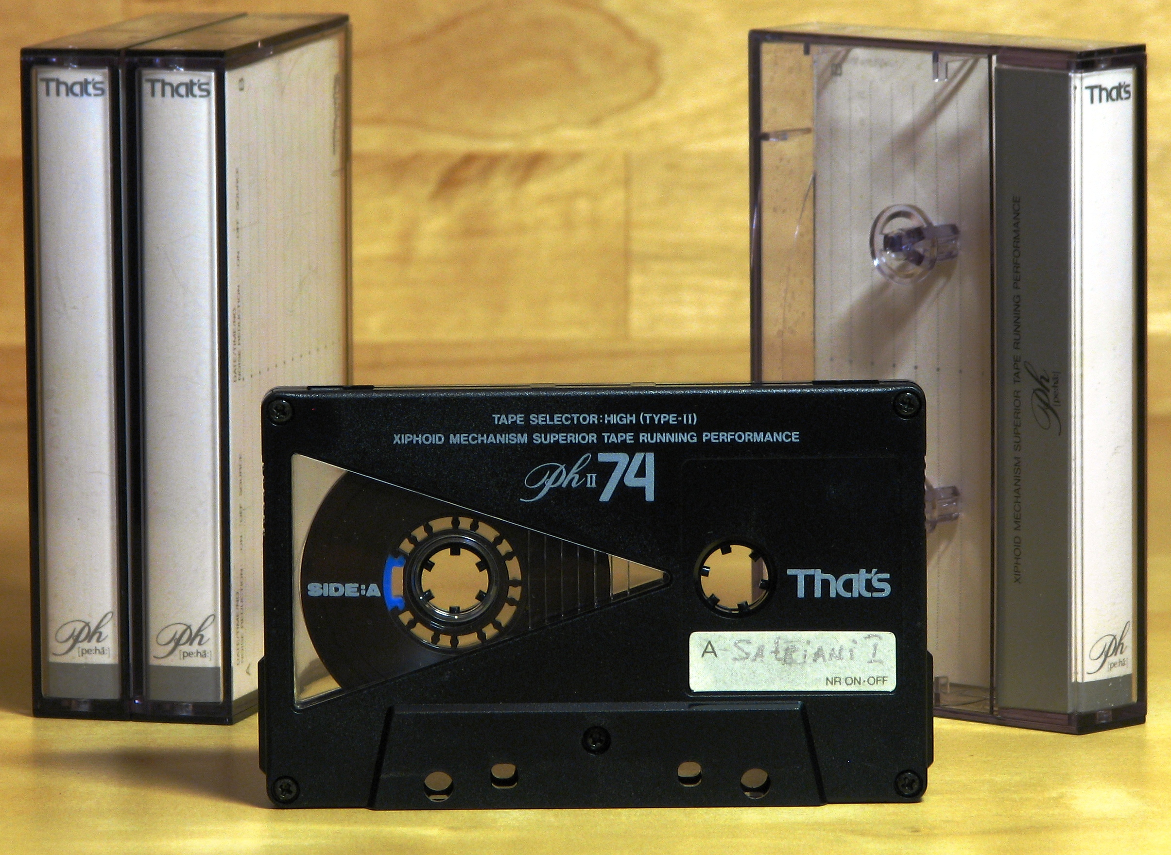 Audiocassettes That's Ph II 74. Playing time 74 minutes. Tape type II. Design the early 1990s.